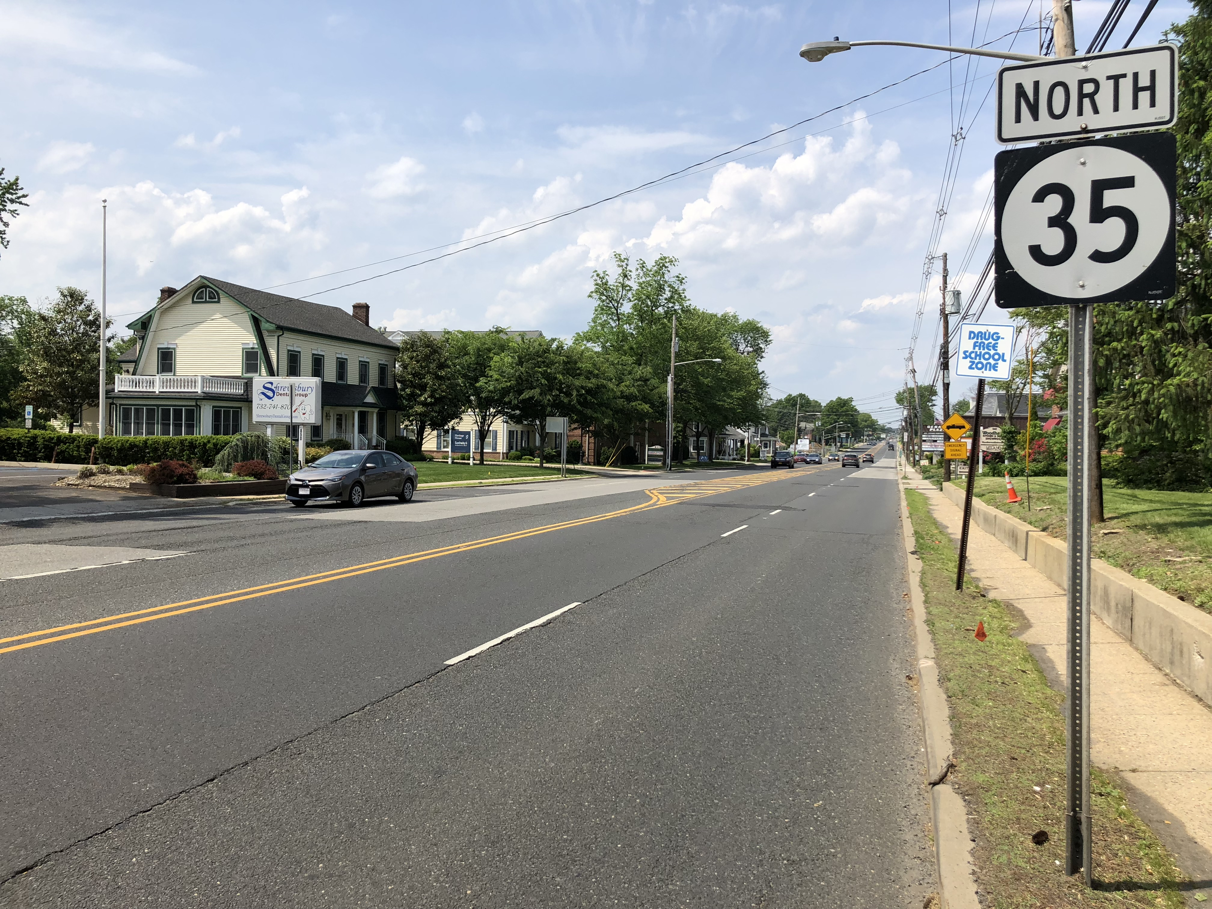 View north along New Jersey State Route 35 (Broad Street) at Monmouth County Route 13A (Sycamore Avenue) in Shrewsbury, Monmouth County, New Jersey